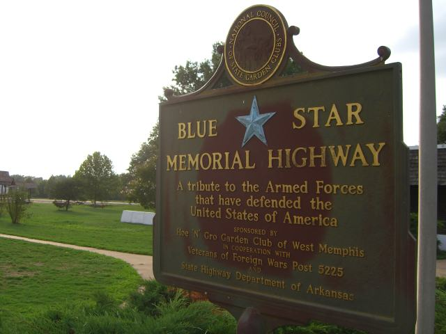 Nick Juhasz authored.